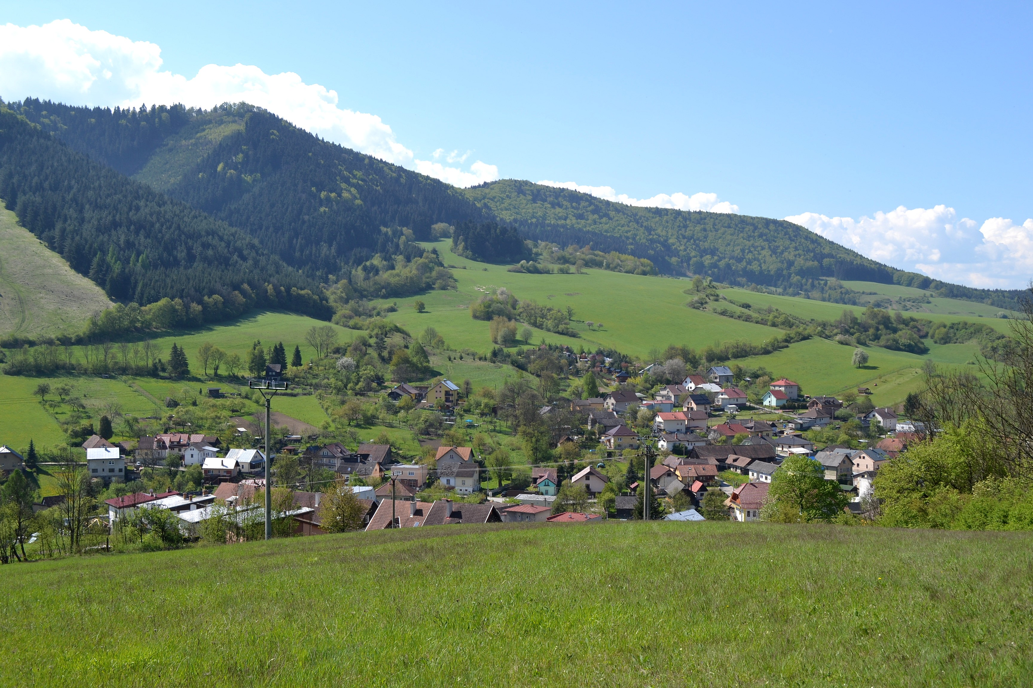 Lietavská Svinná-Babkov (okr. Žilina), pohľad na časť obce z lúky pod Lietavským hradom; v pozadí Strážovské vrchy